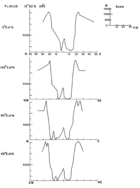 Plinius crater cross section